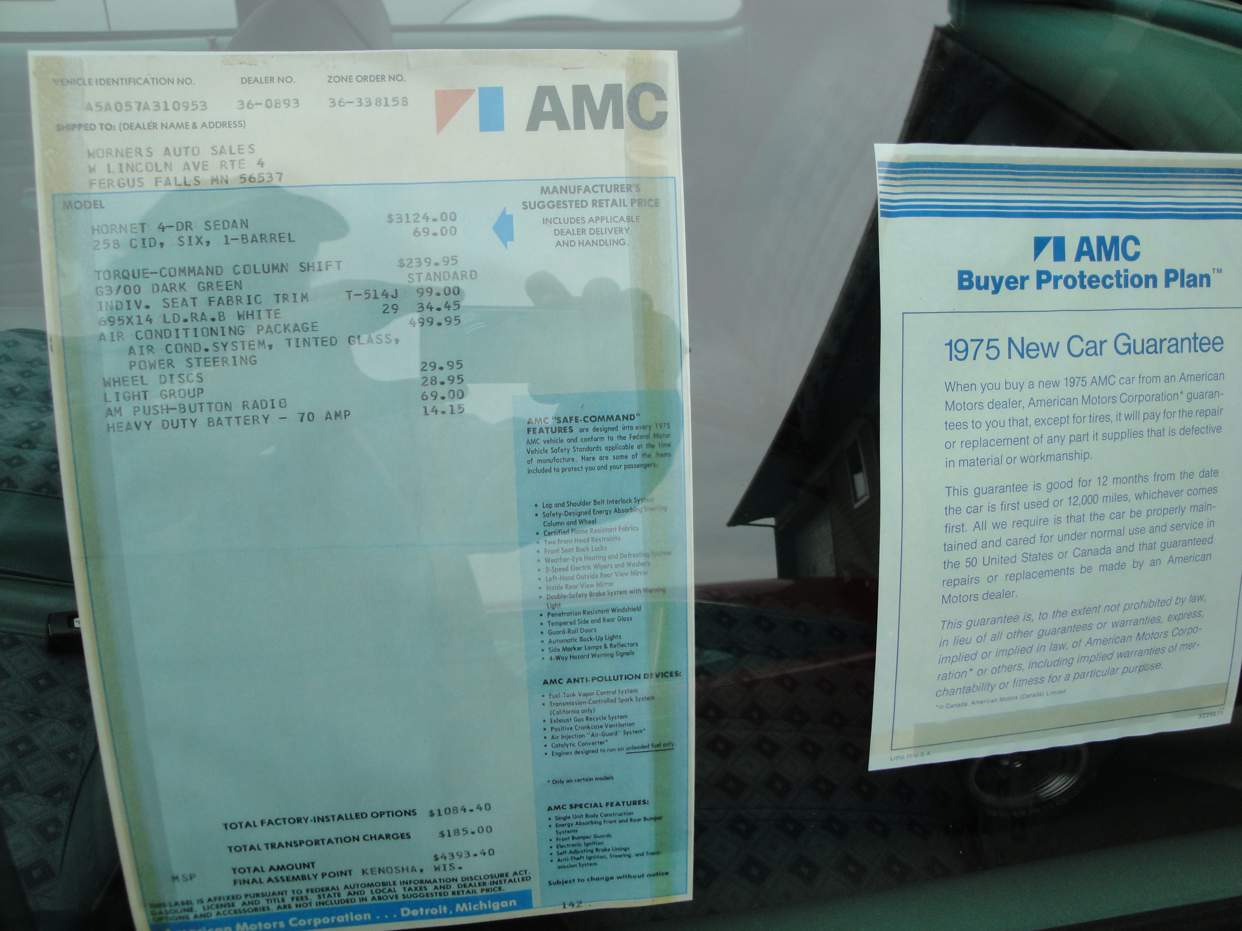 The original Monroney sticker of a 1975 AMC Hornet, a compact-size four-door sedan. AutoMotorPlex Top 21 All Mopars Car Show hosted by MnChallengers.